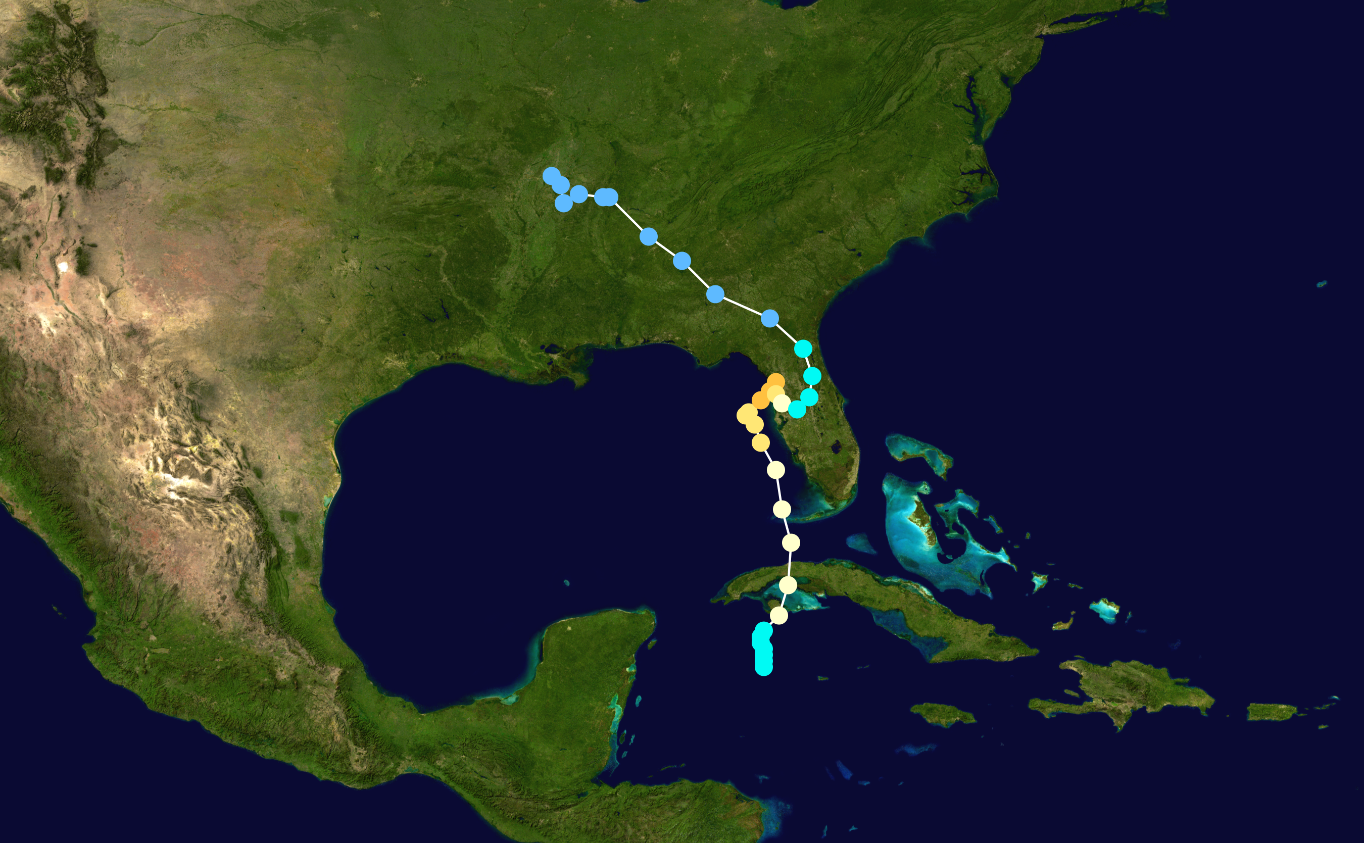 Track map of Hurricane Easy of the 1950 Atlantic hurricane season. The points show the location of the storm at 6-hour intervals. The colour represents the storm's maximum sustained wind speeds as classified in the Saffir–Simpson scale (see below), and the shape of the data points represent the nature of the storm, according to the legend below. Saffir–Simpson scale Tropical depression≤38 mph≤62 km/h Category 3111–129 mph178–208 km/h Tropical storm39–73 mph63–118 km/h Category 4130–156 mph209–251 km/h Category 174–95 mph119–153 km/h Category 5≥157 mph≥252 km/h Category 296–110 mph154–177 km/h Unknown Storm type Tropical cyclone Subtropical cyclone Extratropical cyclone / Remnant low / Tropical disturbance